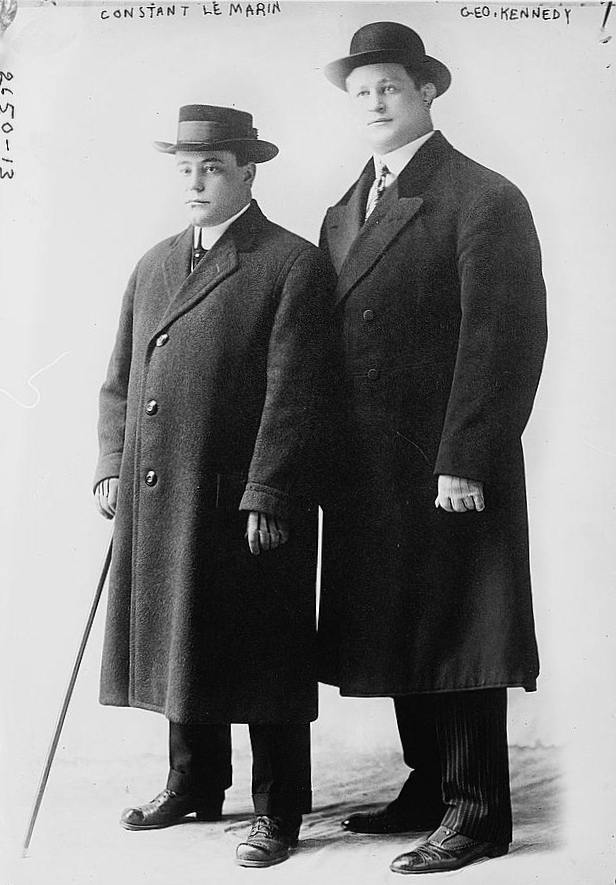 Photo shows wrestler and sports promoter George Washington Kendall (1881-1921) on left, with Belgian wrestler, Constant Le Marin. (original summary)